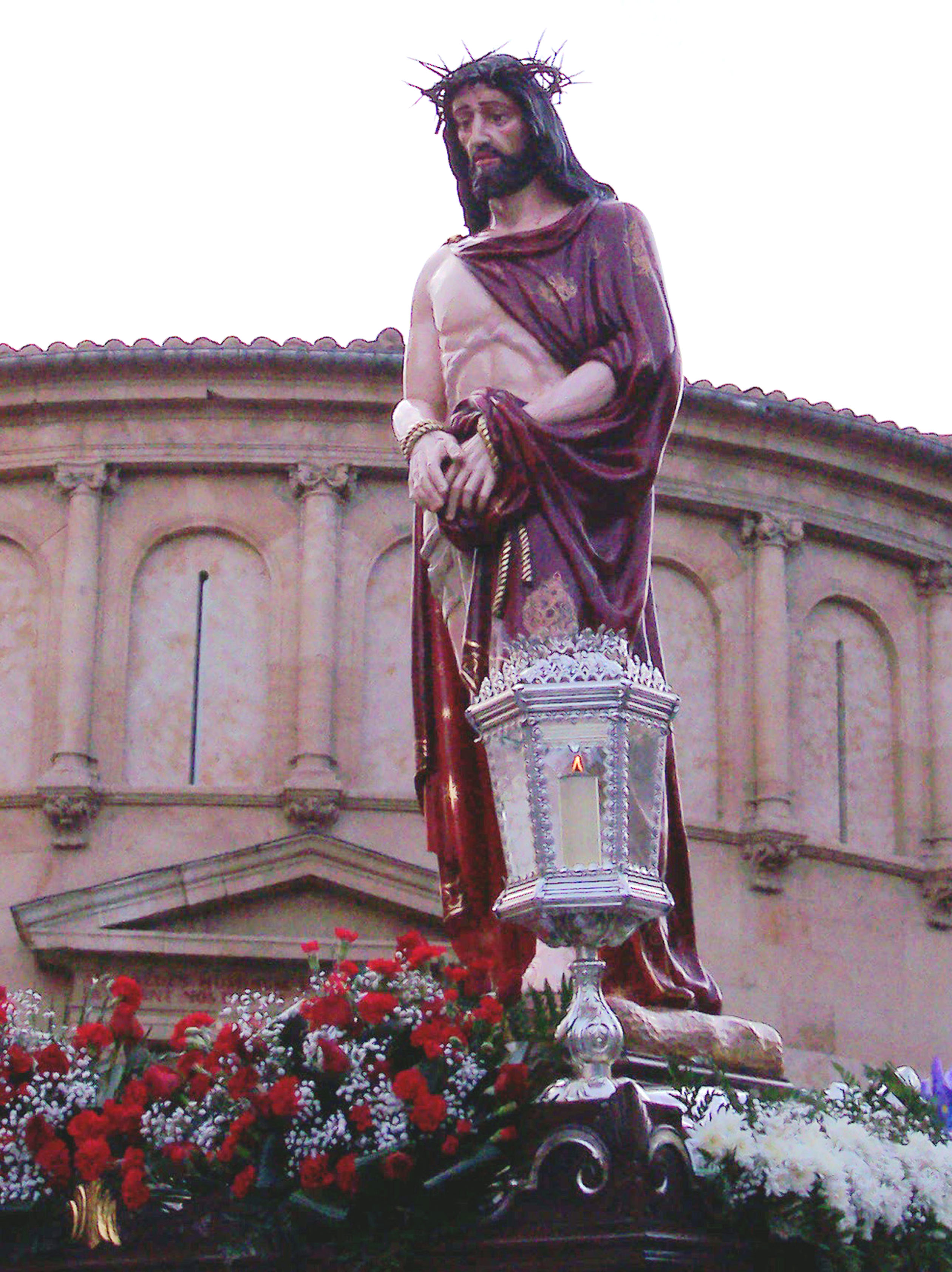 Jesus of the Via Crucis, Salamanca (Spain)